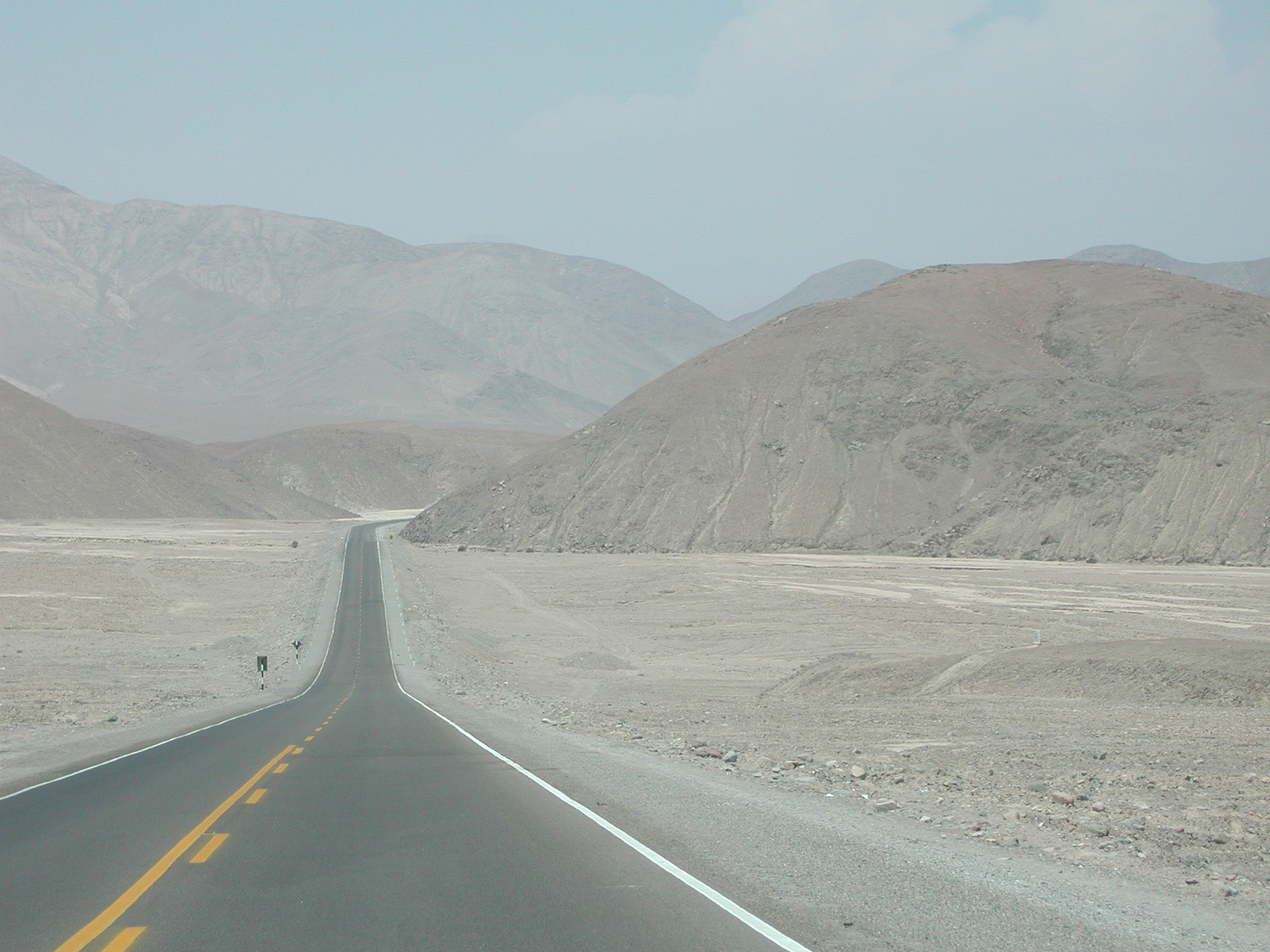 Panamericana in the Atacama Desert, Chile S. of La Joya